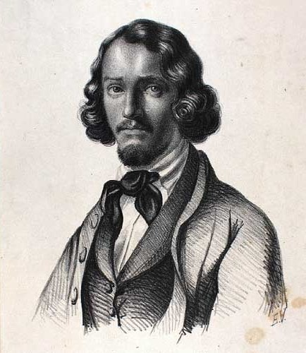 Frederik Carl Julius Kraft (1823-1854), Danish landscape painter